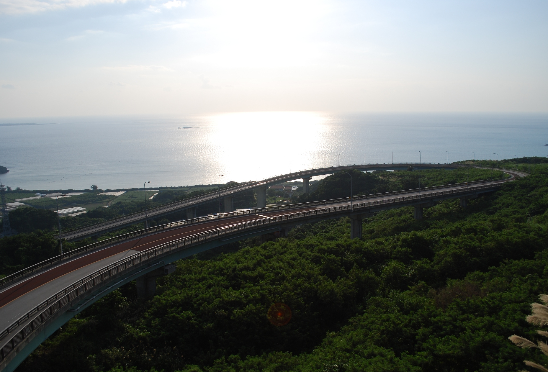 Nirai Kanai bridge